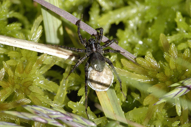 female Pirata latitans with egg sac, from Commanster, Belgian High Ardennes .